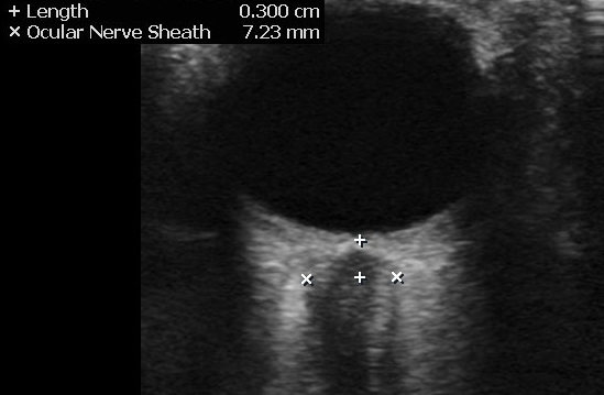 The patient is a 37 y/o female who presents with complaints of two months of intermittent severe frontal headaches associated with some decreased vision, nausea/vomiting and photophobia. File:UOTW 5 - Ultrasound of the Week 1.jpg File:UOTW 5 - Ultrasound of the Week 2.jpg